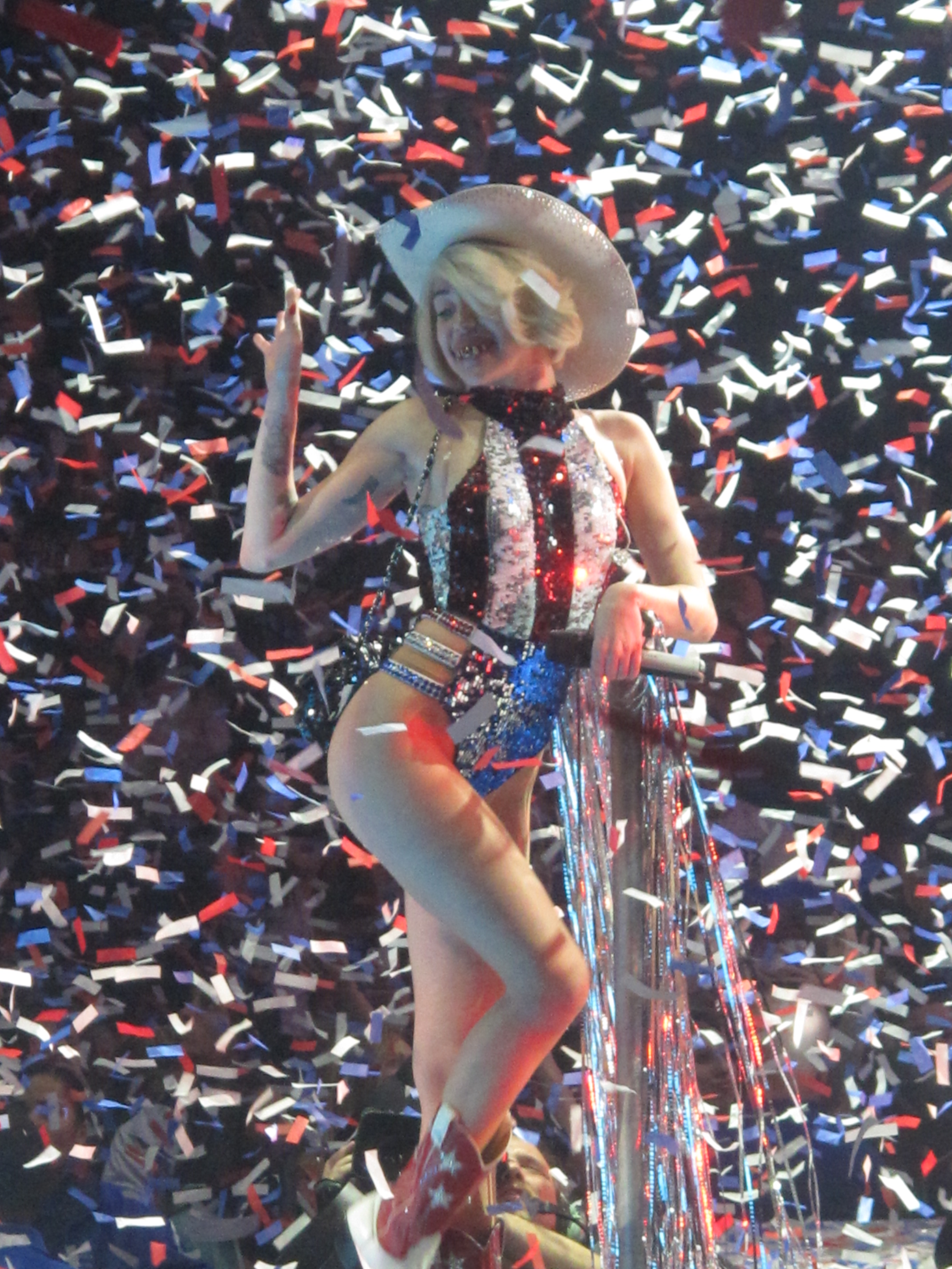 Miley Cyrus-Bangerz Tour - 13092429473